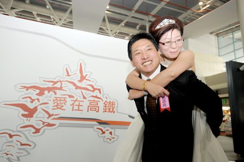 “ROC Centennial–Love at THSR” event